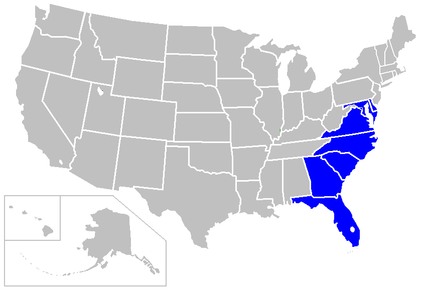 States with Harris Teeter locations.